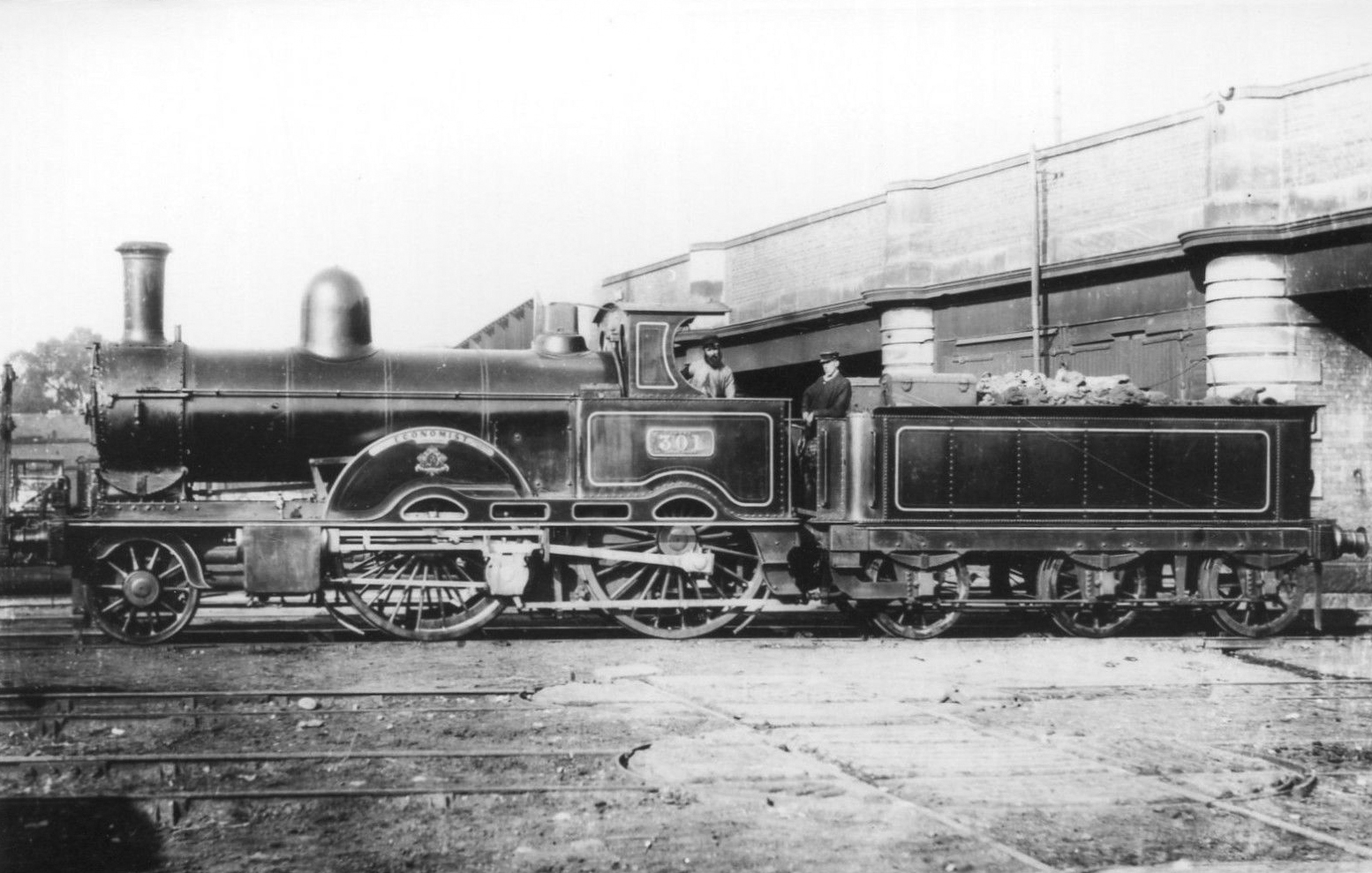 Photograph of LNWR engine No. 301 'Economist'